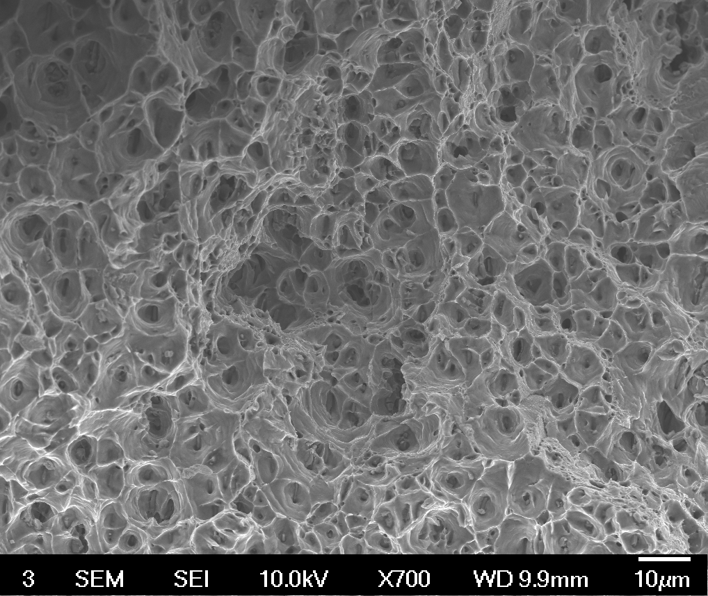 The fracture surface shown in this image is a good example of a ductile fracture surface. Broken voids can be seen which coalesced around Mg2Si precipitates in the material. The surface is a cross-section after fracture of a tensile specimen machined from 6061-T6 aluminum plate. The image was taken with an SEM using an Everhart-Thornley detector biased to detect both secondary and backscatter electrons.